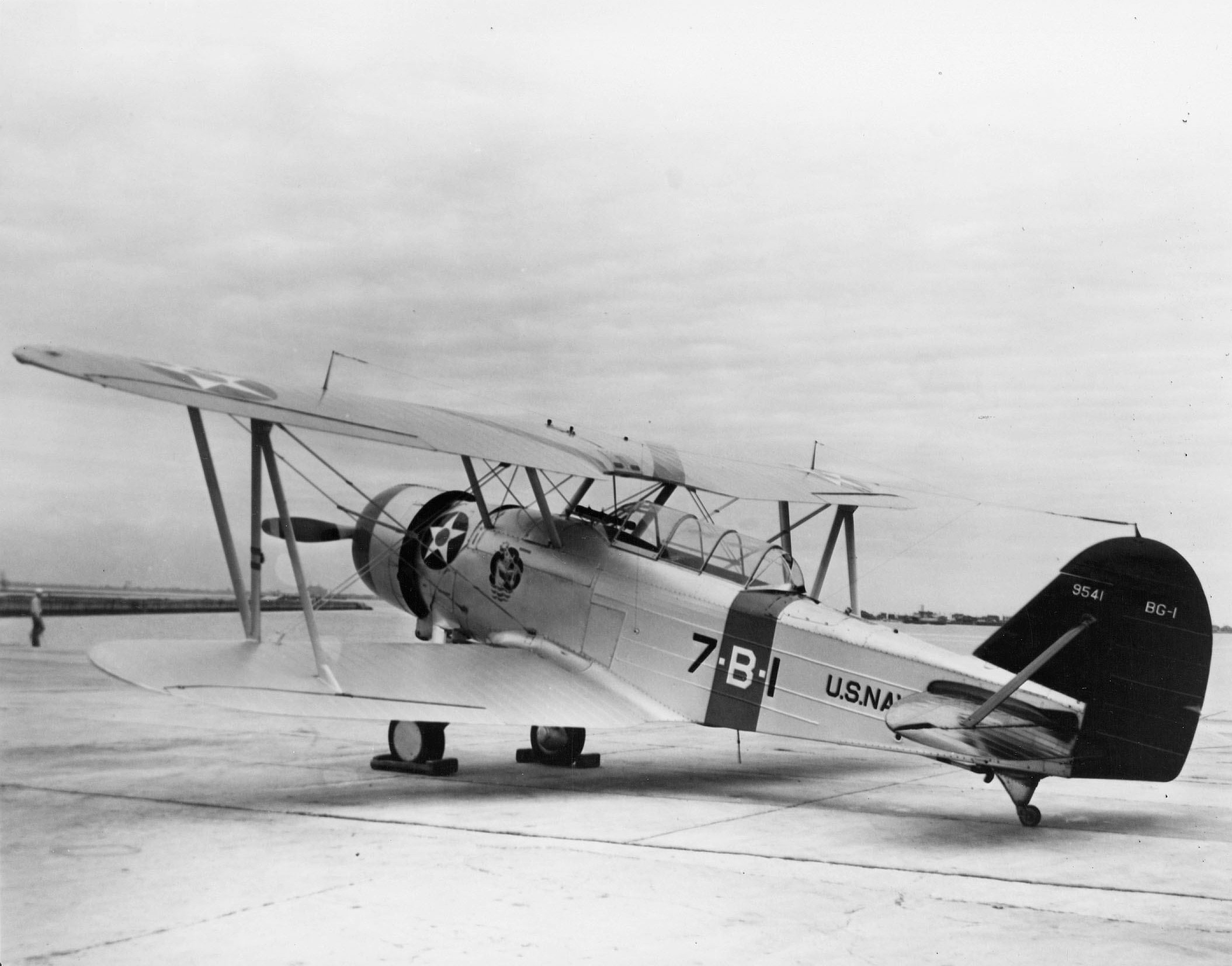 A U.S. Navy Great Lakes BG-1 of bombing squadron VB-7 at Naval Air Station Norfolk, Virginia (USA), in 1940. VB-7 was flying the Neutrality Patrol.